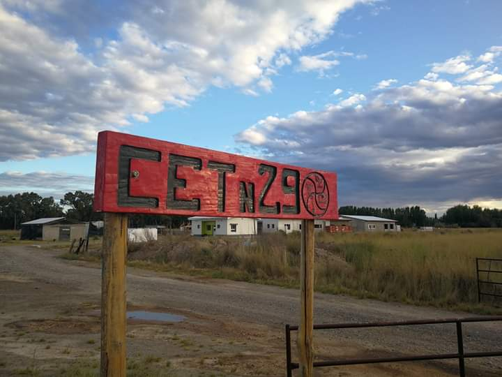 This image belongs to the farm of CET Nº29